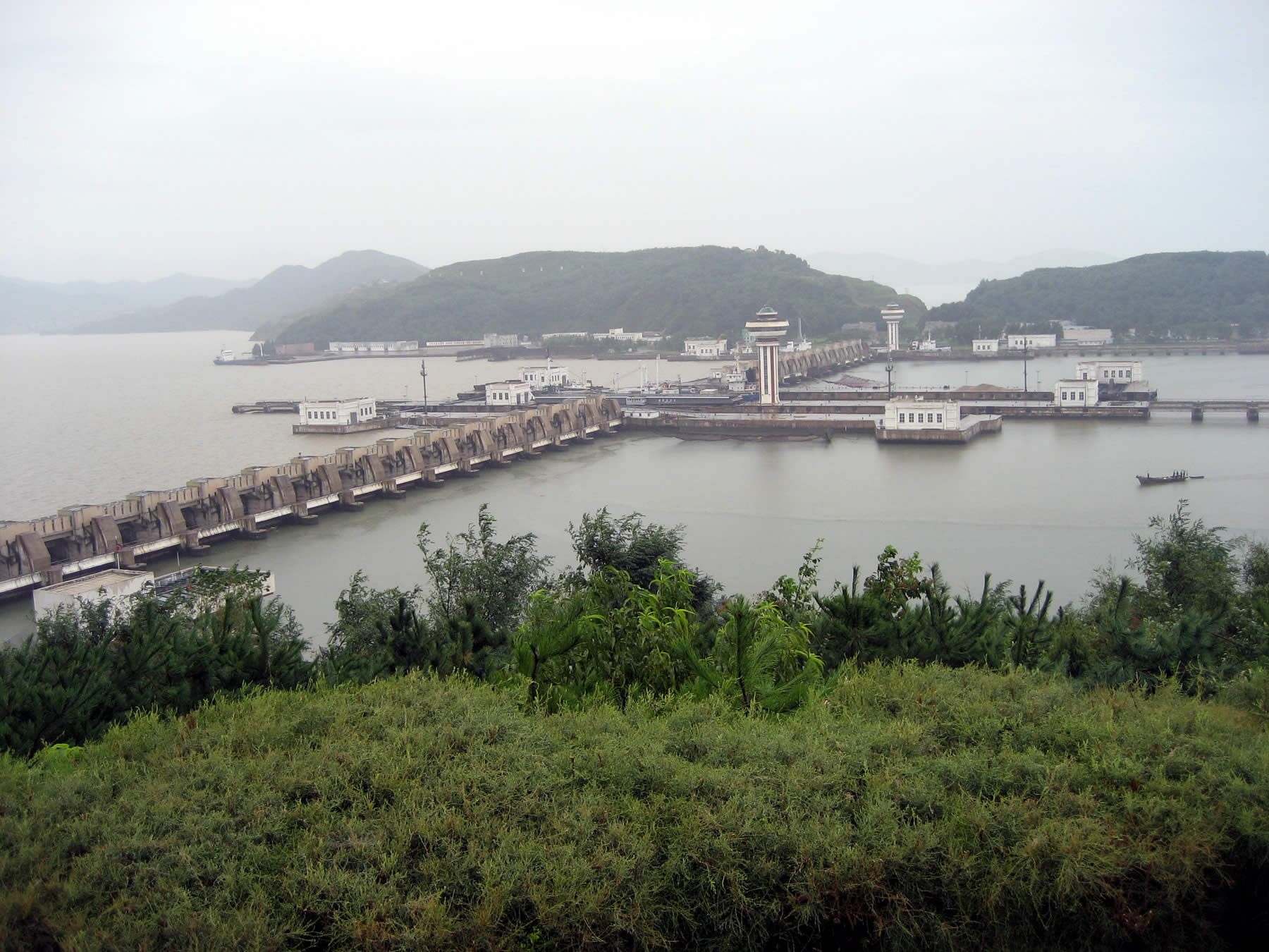 The West Sea Barrage (1986) near the port city of Nampo protects the mouth of the Taedong River from tidal flows.